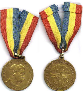 Commemorative medal, six years of activity (1927-1933) of the Association ARPA.